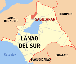 Map of the Lanao del Sur showing the location of Saguiaran